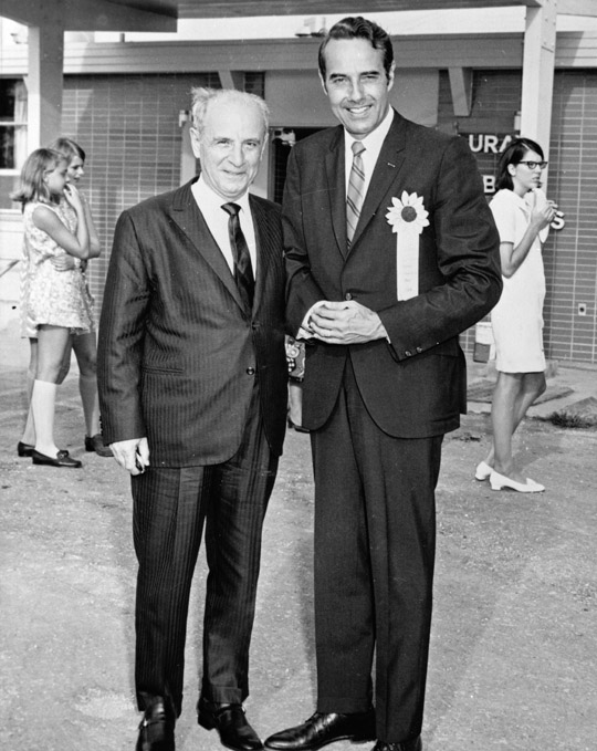 Dole, Robert J., 1923-; Kelikian, Hampar; Dole and Dr. Kelikian are standing together in front of a building, Dole is wearing a large sunflower button with a ribbon, Notes: Chicago surgeon Dr. Hampar Kelikian performed numerous surgeries on Dole